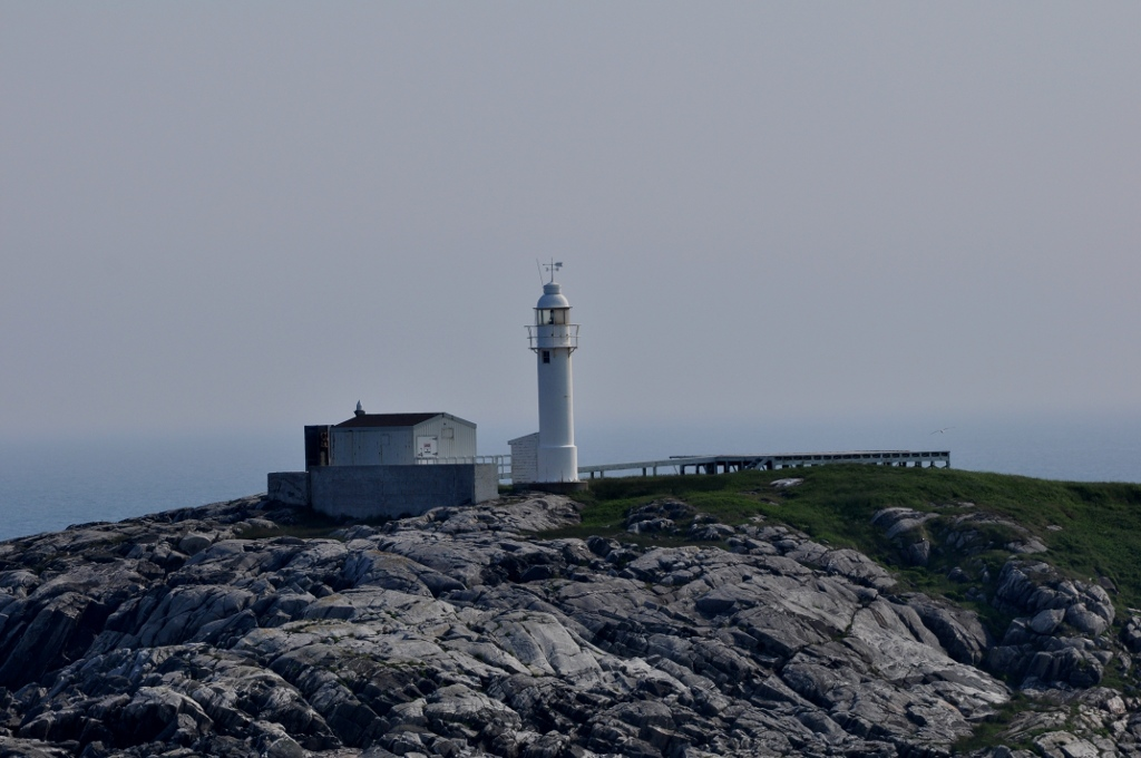 Channel light, Channel-Port aux Basques, Newfoundland.